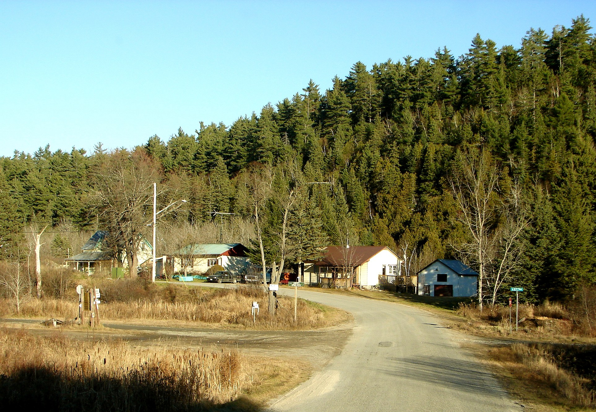 Lavant Station on the former K&P Railway (Lanark Highlands Township), Ontario, Canada